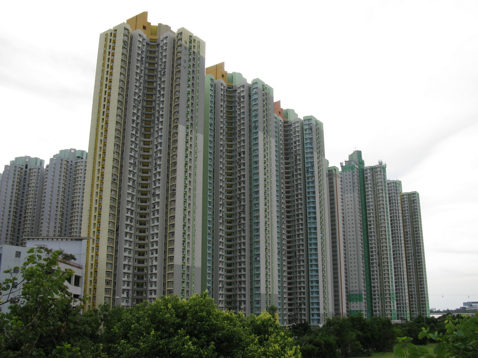 Yat Tung (II) Estate, Tung Chung West